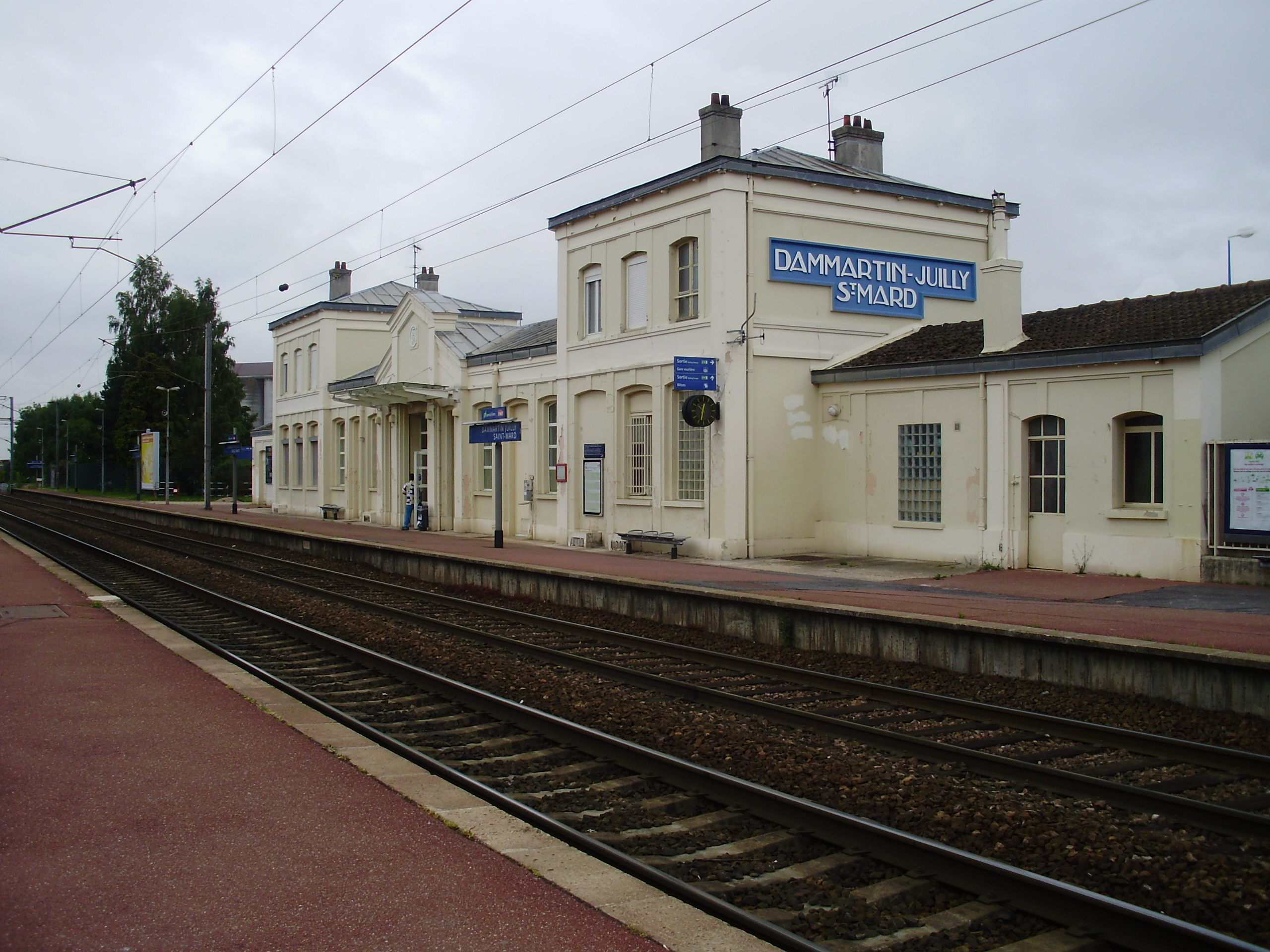 Dammartin - Juilly - Saint-Mard station, in Saint-Mard, Seine-et-Marne, France viewed from the platform to Paris